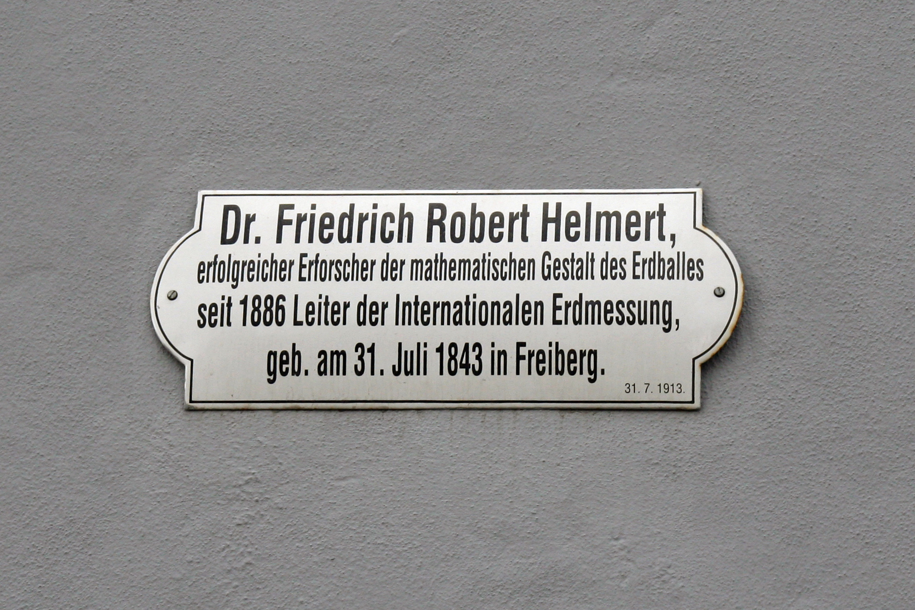 Friedrich Robert Helmert, commemorative plaque in Freiberg